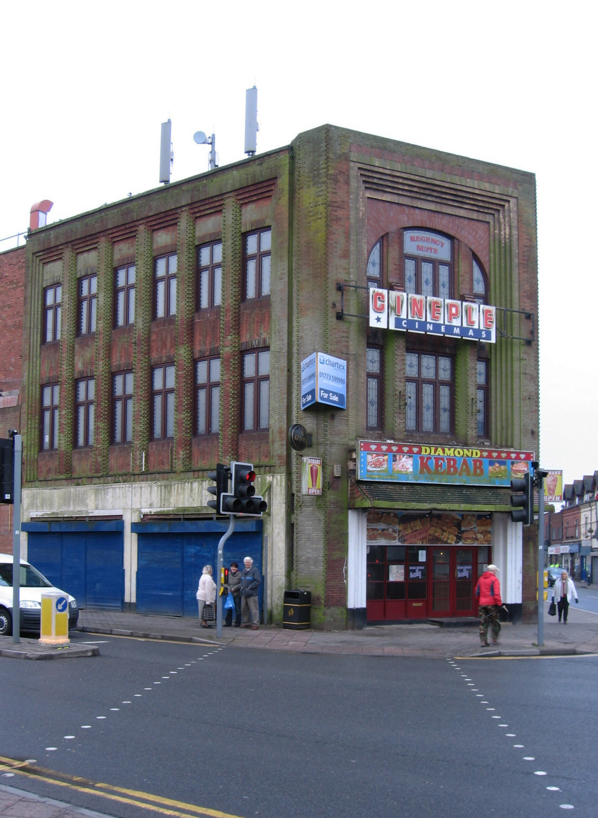 Kirkby-in-Ashfield - Regency Cinema